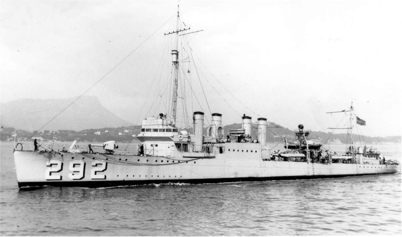 The U.S. Navy destroyer USS Reid (DD-292) in the western Mediterranean, circa in 1926.